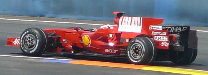 Kimi Räikkönen driving for Scuderia Ferrari at the 2008 European Grand Prix.